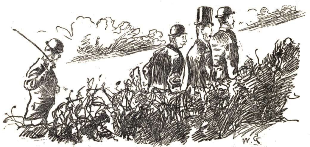 jpg of image on print page 30 of File:Diary of a Nobody.djvu